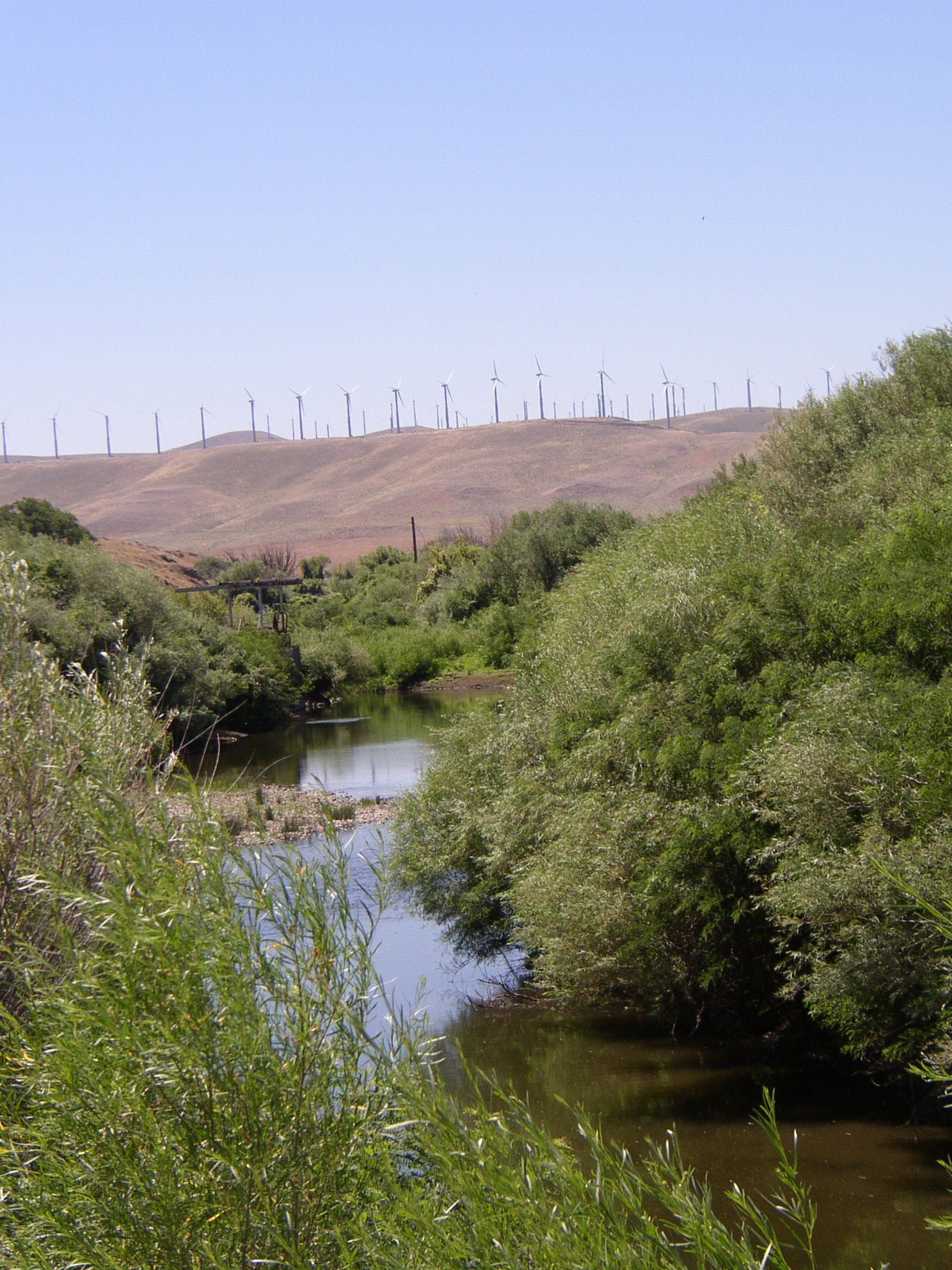 Wind Turbines seen looking across the Walla Walla River. Taken by uploader. All rights released. Williamborg 04:10, 9 July 2006 (UTC)